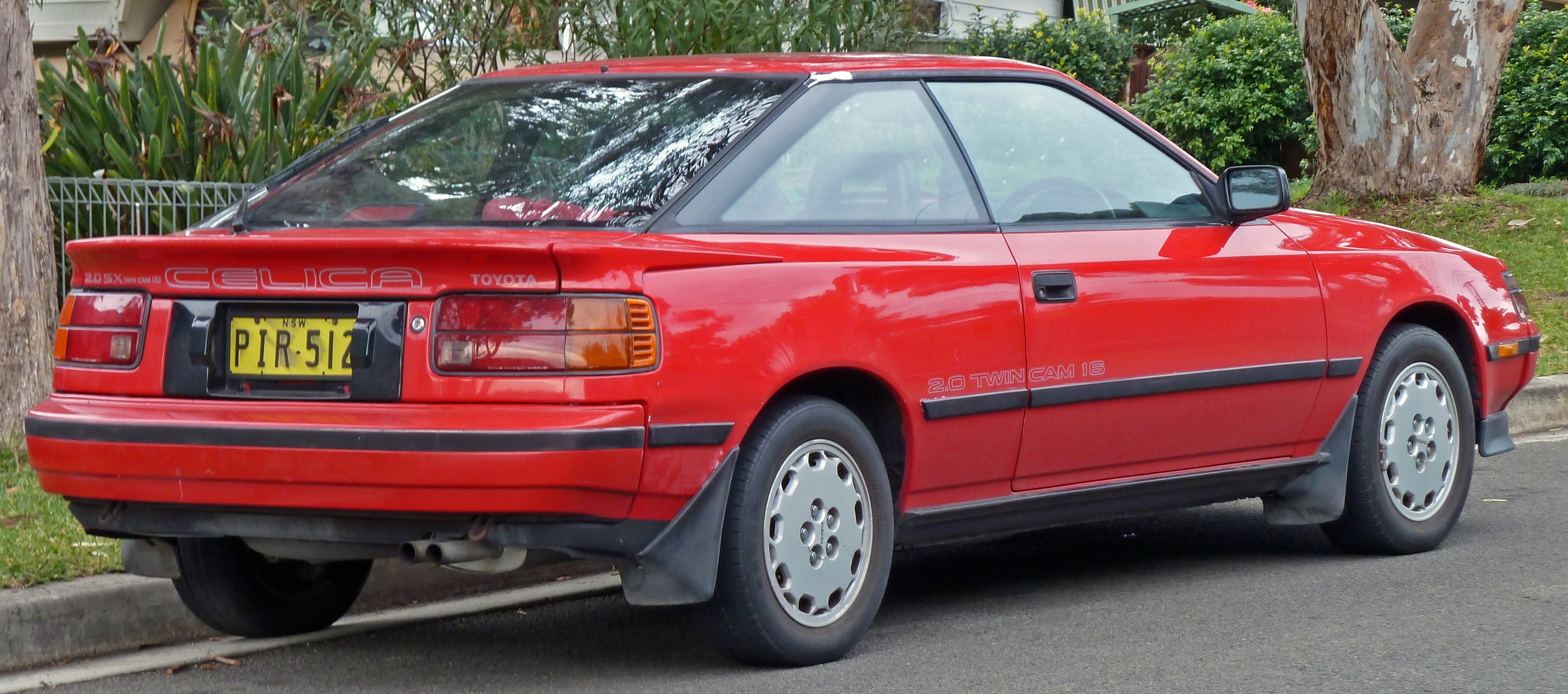 1989 Toyota Celica (ST162) SX liftback. Photographed in Woolooware, New South Wales, Australia.